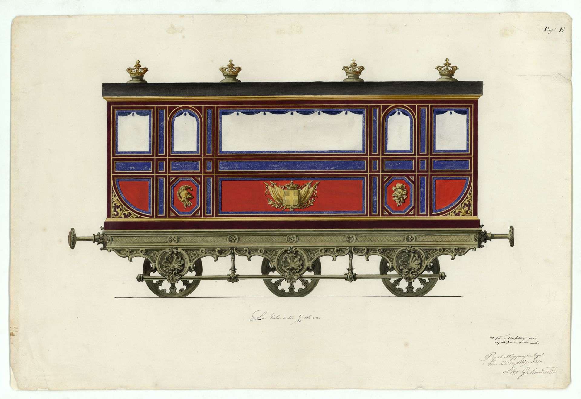 Drawing by Gabriele Capello of Moncalvo of the side elevation of the royal carriage with coat of arms, Turin, February 10, 1853 (AS Torino, Strade Ferrate, Disegni, n. 5)